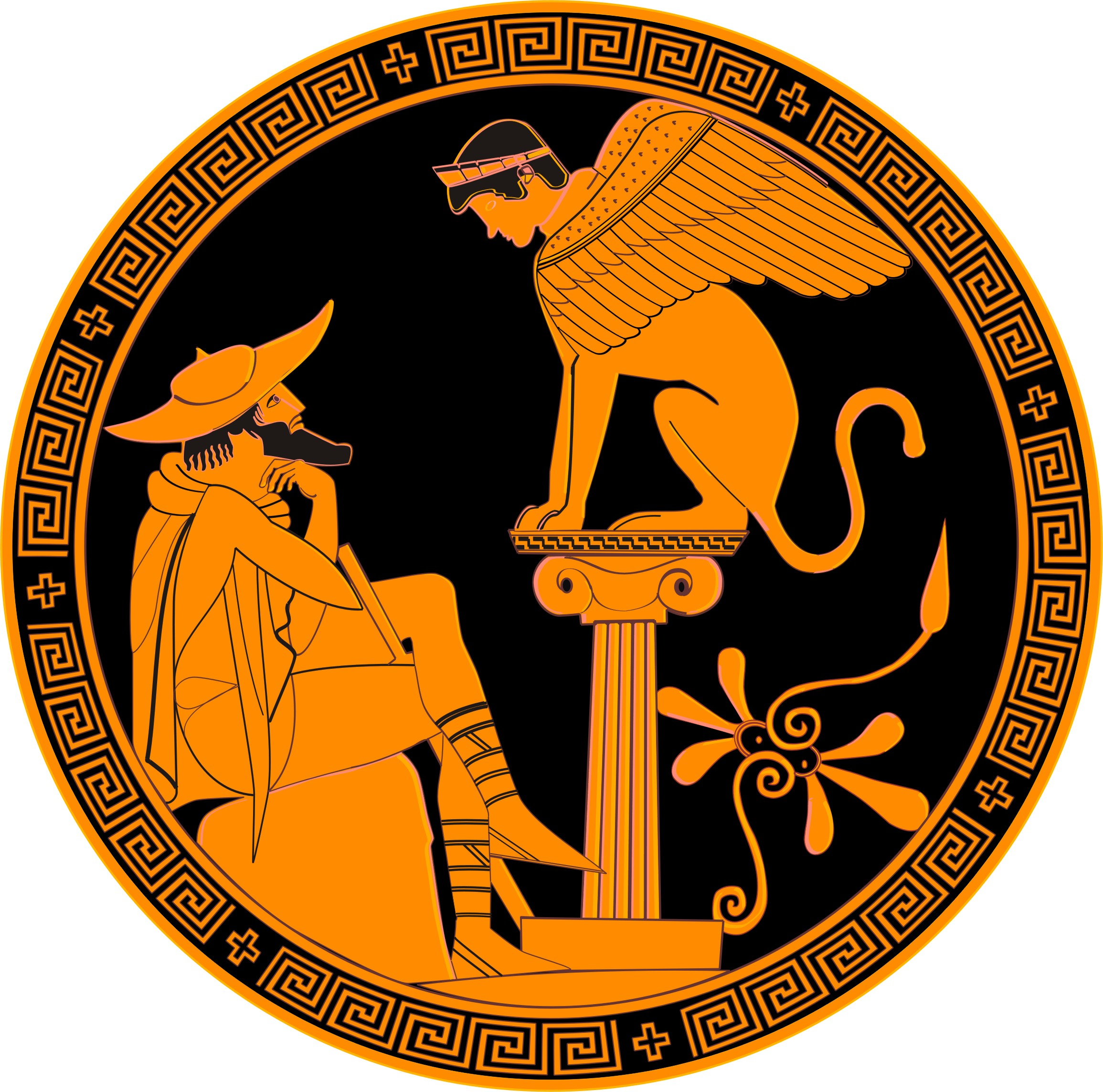 Oedipus and the sphinx. Tondo of an Attic red-figure kylix, 480–470 BC. From Vulci.